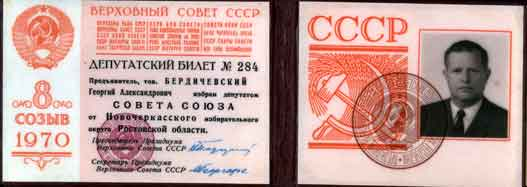 Identity cards of the people's Deputy of the Supreme Council of the Soviet Union, 8 th convocation. 1970.